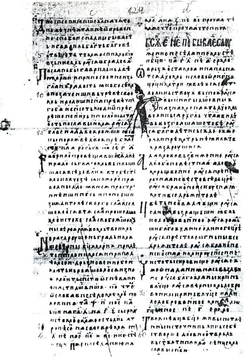 Fragment from the manuscript Triodion of Orbel, XIIIth c. Macedonia